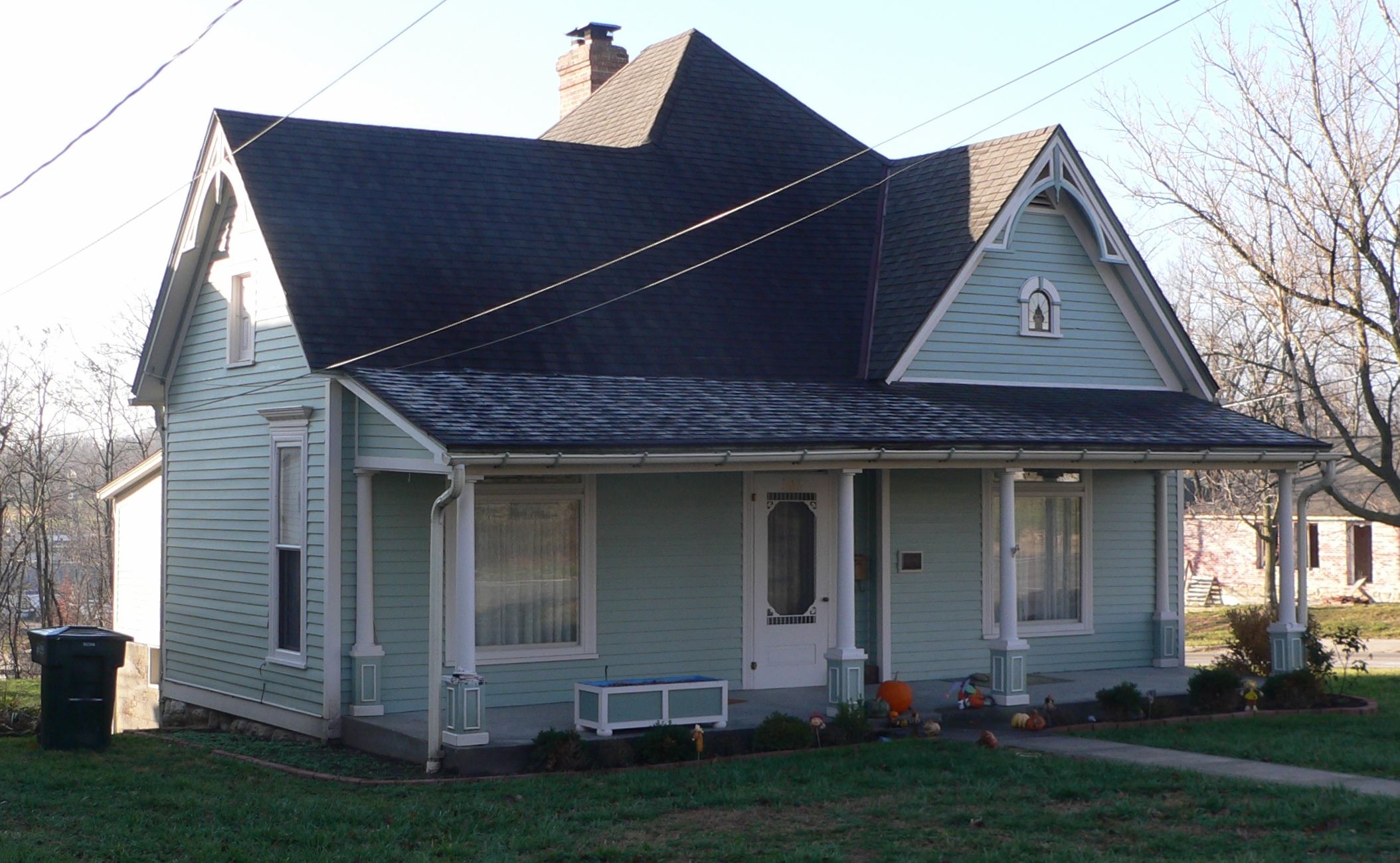 House at 302 E. 5th Street in Fulton, Missouri; seen from the northeast.